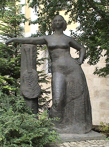 Statue of Déryné Széppataki Róza (1793–1872), hungarian actress. National Theatre of Miskolc. Sculptor: Erzsébet Schaár.